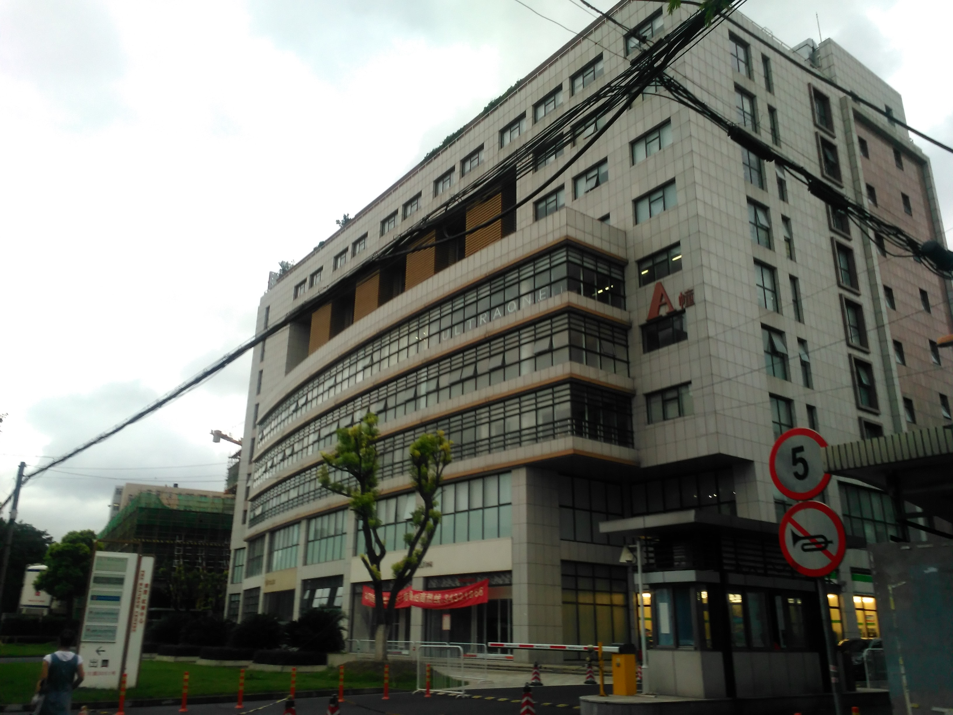 Rainbow Hongqiao Centre, 3051 Hechuan Rd, Minhang District, Shanghai